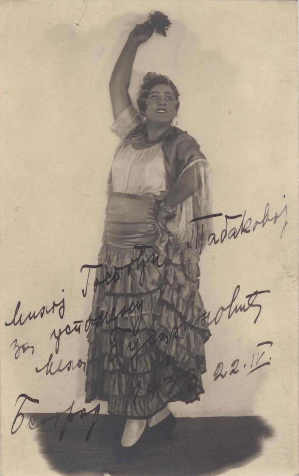 Serbian opera singer Melanie (Melanija) Bugarinovic - postcard with autograph in the archive of Tzvetana Tabakova